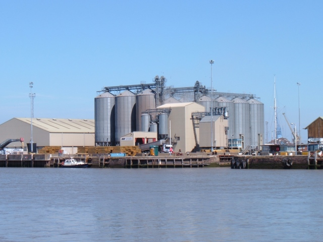 Pilot Boat and docks entrance A view of King's Lynn's Pilot Boat and the entrance to the town's docks. Photographed from the Lynn Ferry.